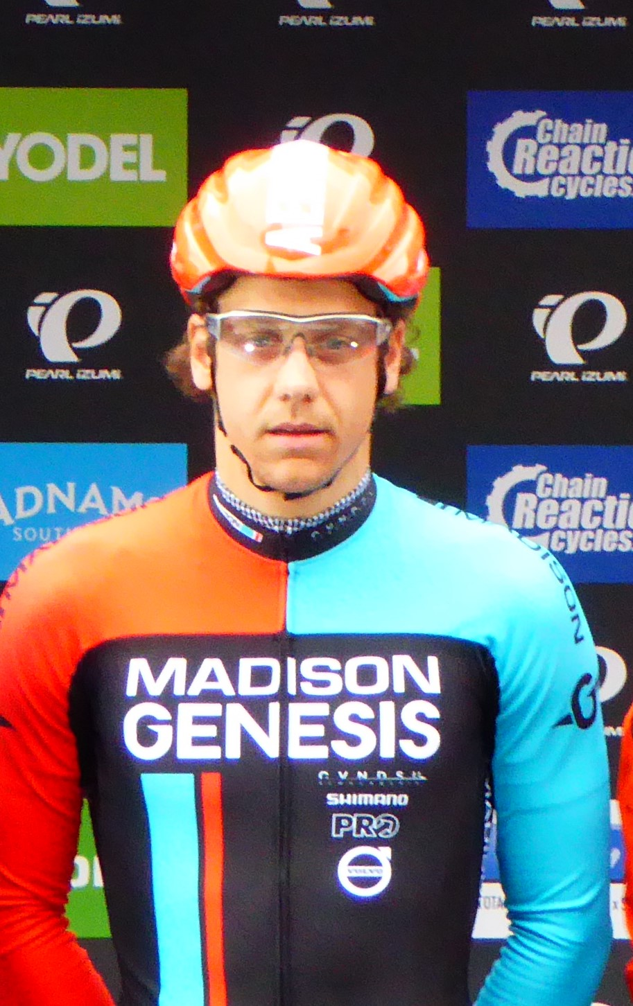 Alexandre Blain, prior to Round 2 of the Pearl Izumi Tour Series in Motherwell, on 17 May 2016